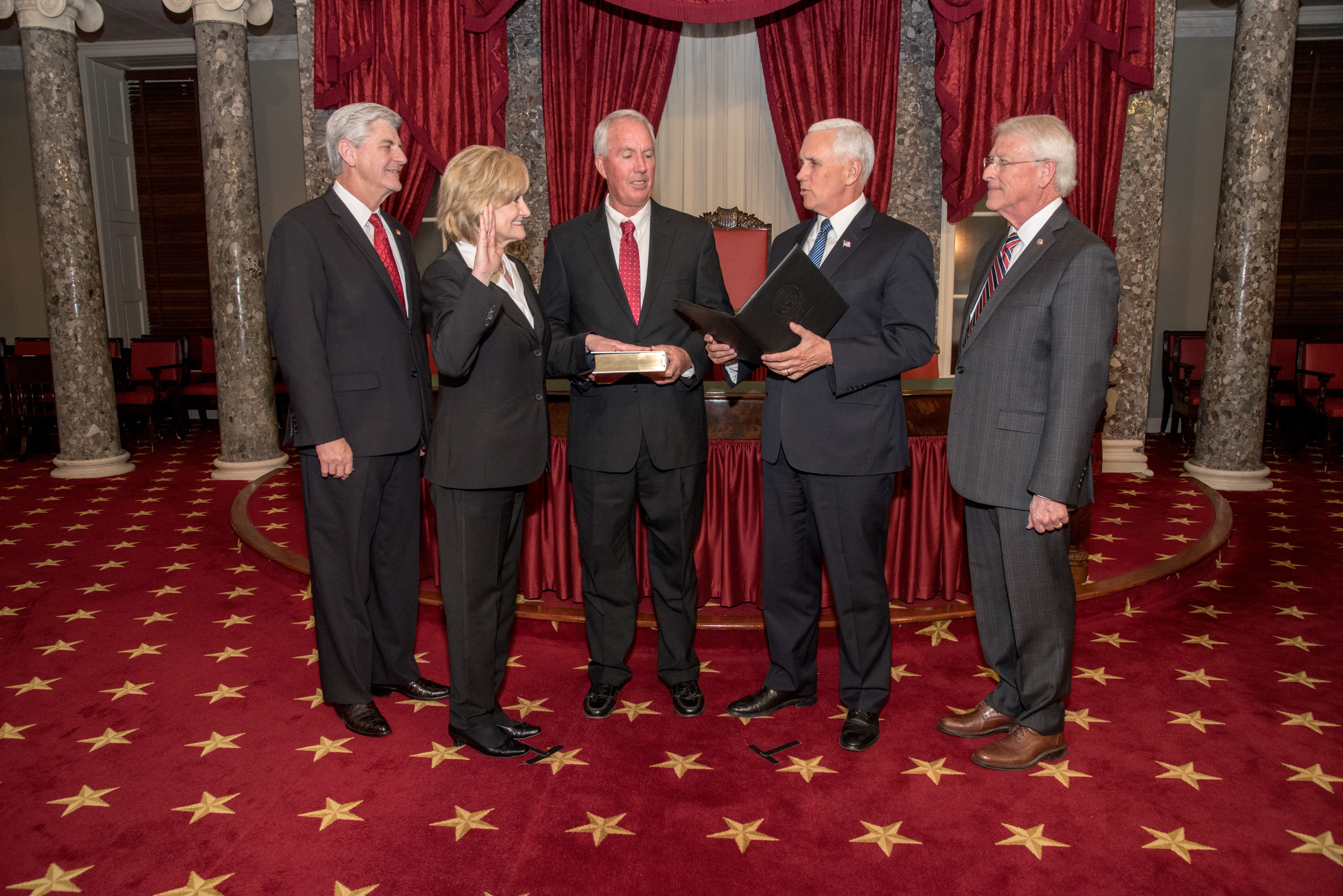 Ceremonial Swearing In, Old Senate Chamber (April 9, 2018) Vice President Mike Pence swears in Cindy Hyde-Smith at the Old Senate Chamber